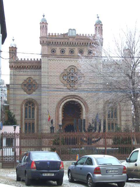 The Choral Temple